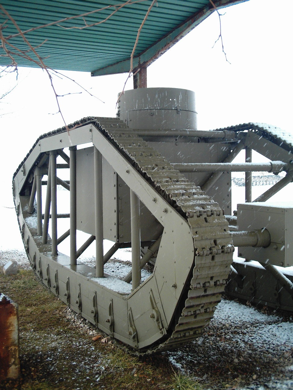 US Light Tank Prototype from the 1920's. Currently located at the US Army Ordnance Museum at Aberdeen Proving Ground, Maryland